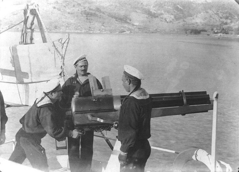 A Hotchkiss 47 mm revolving cannon on the Imperial Russian gunboat Donets.